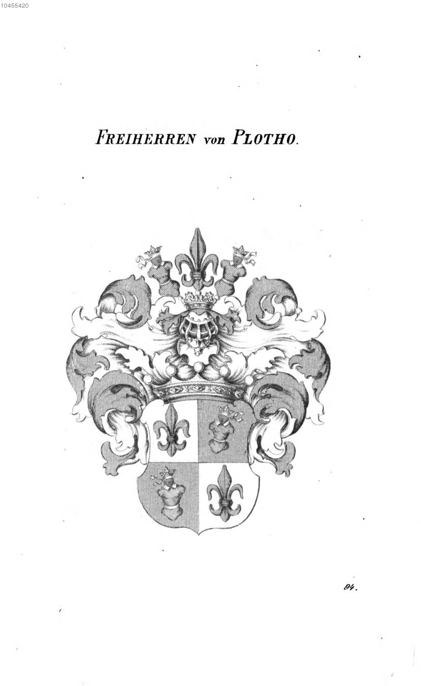 Wappen Plotho - Tyroff AT.jpg